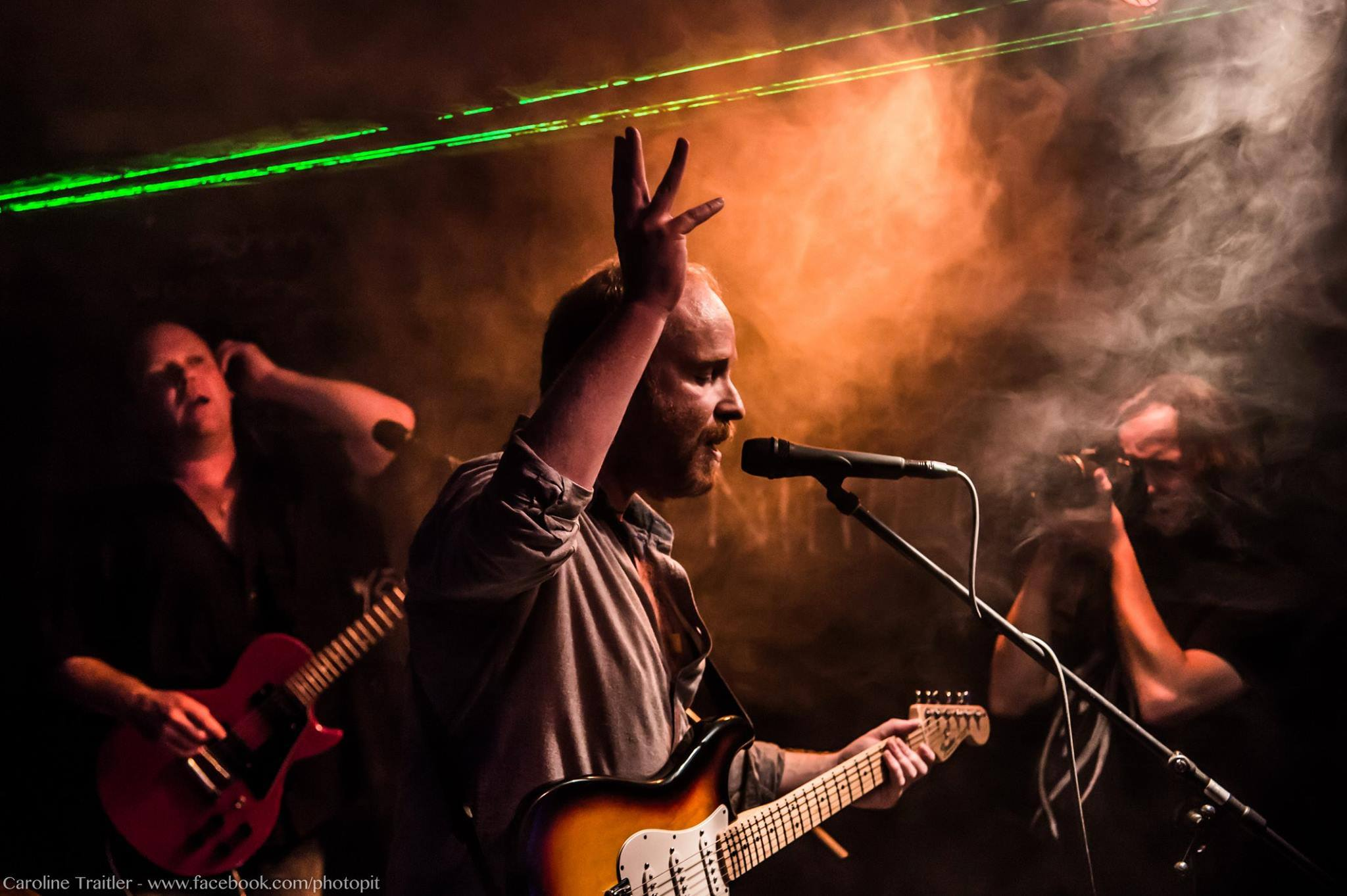 Mick Moss, Antimatter, live in Zurich 13.10.2015